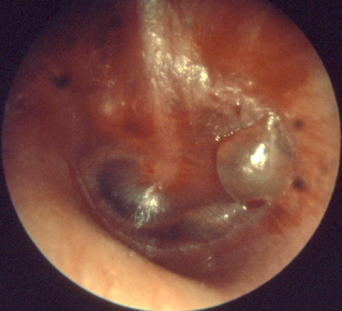 Otitis media acuta - Myringitis bullosa